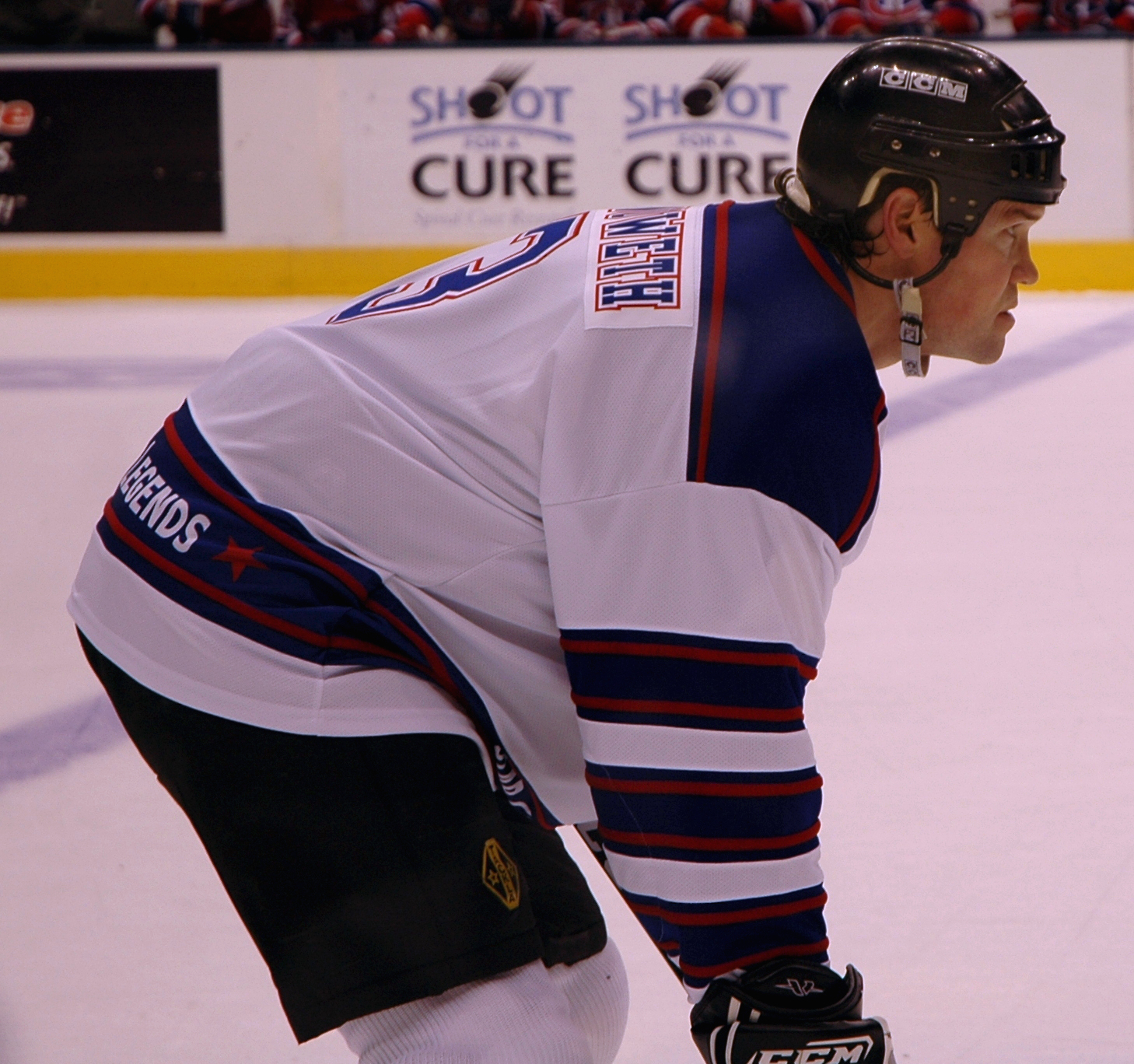 Dean Chynoweth played with the All-Star Legends 2008 in Toronto